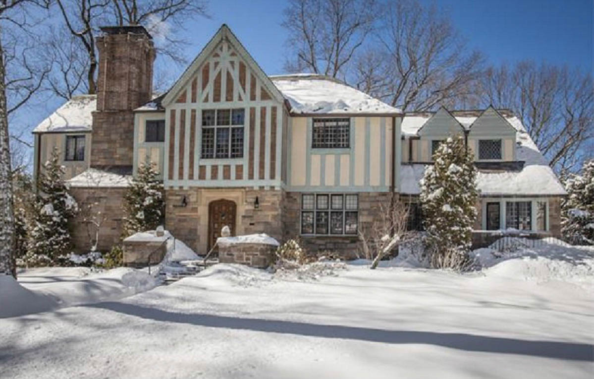 Early 1900's Tudor residence in the Rouken Glen section of the community of New Rochelle, Westchester County, New York.